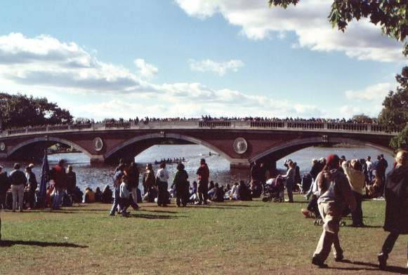 Taken by Dudesleeper on October 20, 2002.